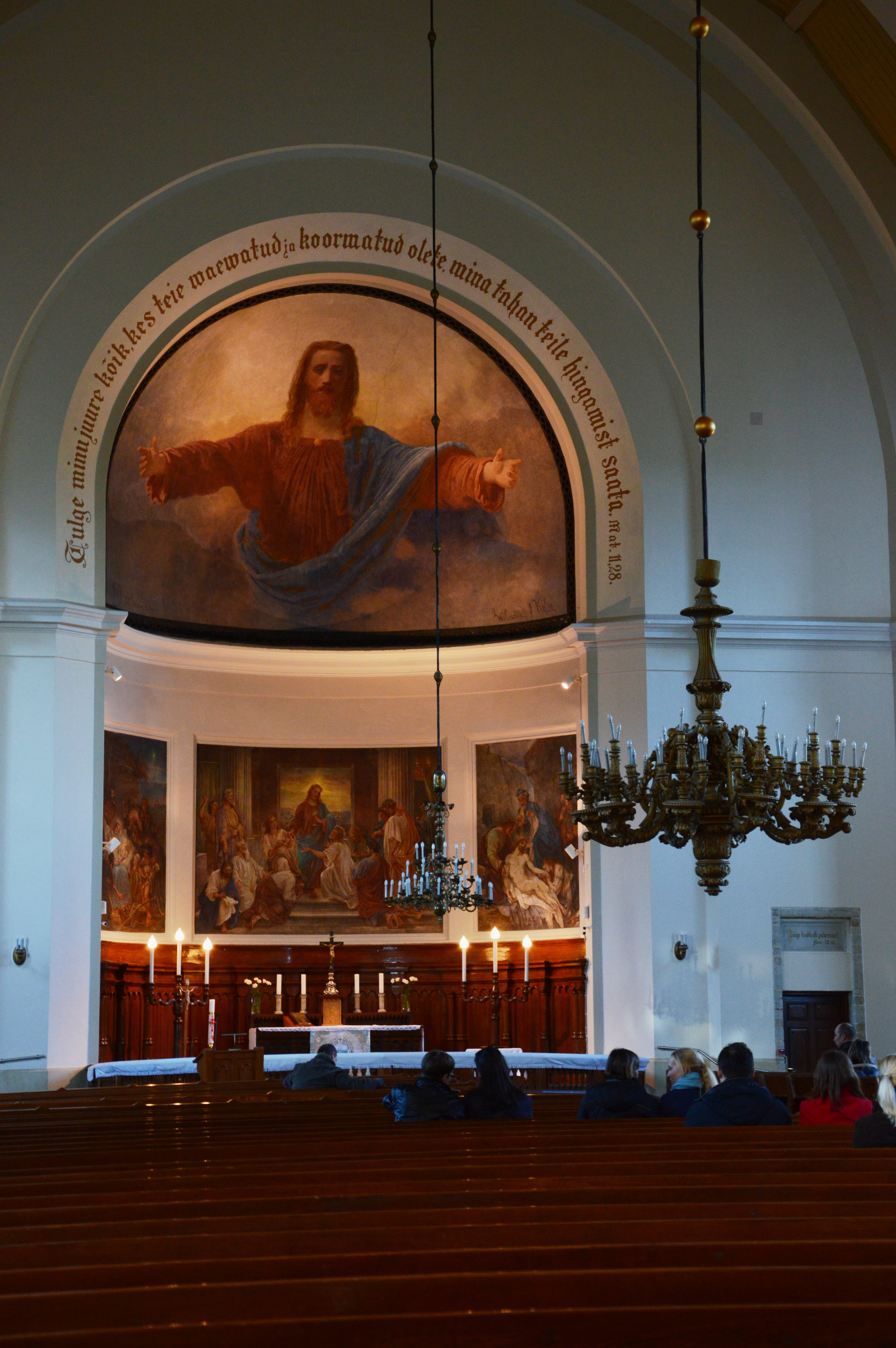 Interior of Charles's Church, Tallinn. This fresco by Johann Köler (1826–1899) is the first fresco in Estonia made by an ethnic Estonian.